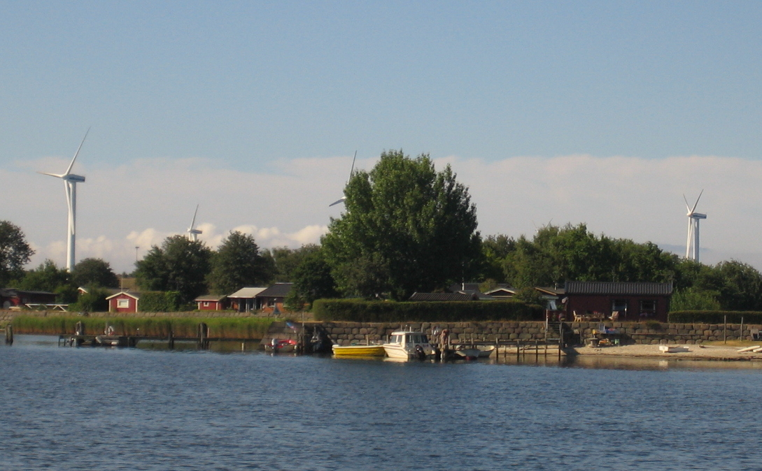 Gråen island in Öresund outside Landskrona.